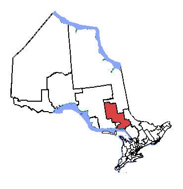 Map of the Nickel Belt electoral district. Based on Earl Andrew's maps, created by SimonP.